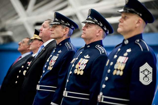 Gen. Norton Schwartz, Gen. Mark Welsh III and Chief Master Sergeant of the Air Force James A. Roy at a change-of-command ceremony in 2012.